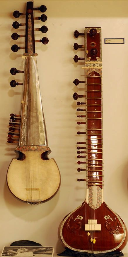 Soinuenea - Herri Musikaren Txokoa (Traditional Music Centre; former Documentation Center of Popular Music) Oiartzun, Gipuzkoa, Spain Crop of File:Plucked string instruments (5) Indian string instruments, Sarod, Sitar, Iktara - Soinuenea.jpg by JG66.